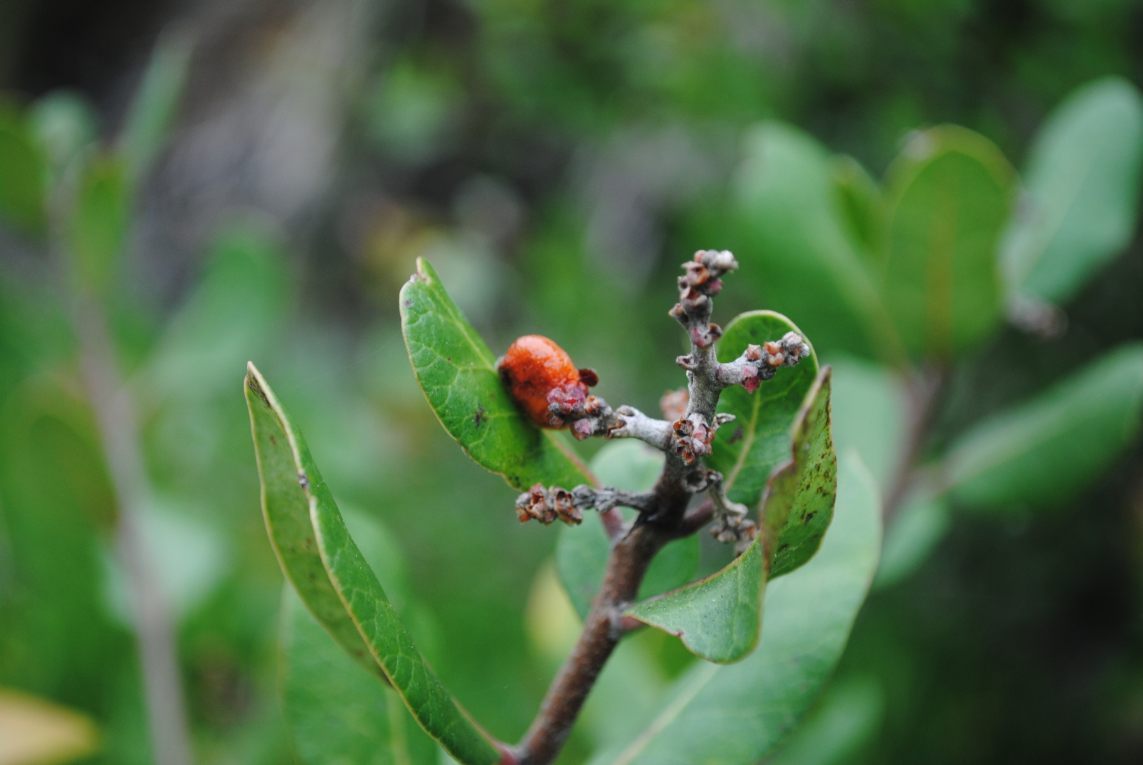 Rhus integrifolia — Lemonadeberry. A closeup on a single lemonadeberry fruit on a plant in Ruffin Canyon, San Diego.